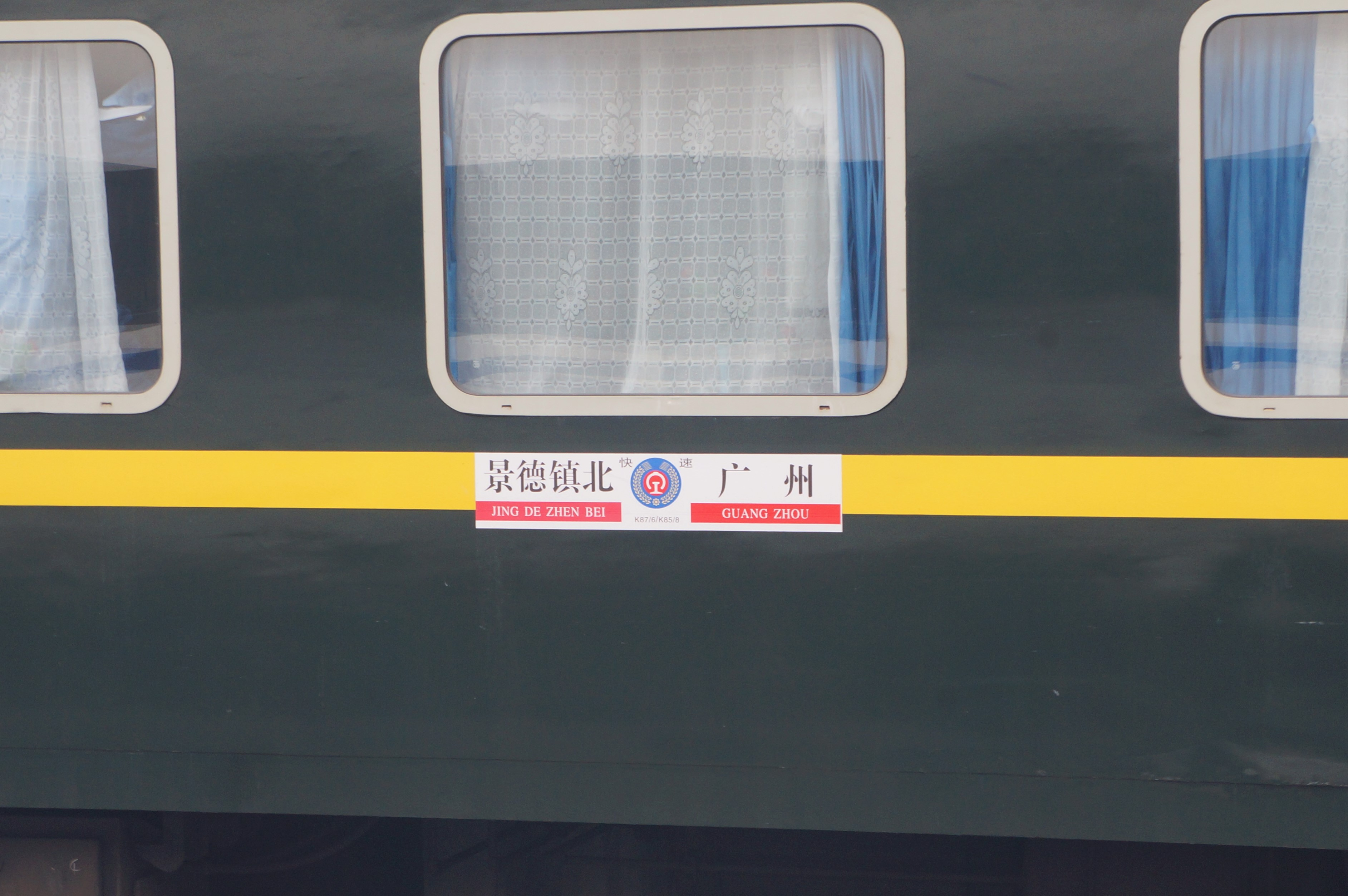 Taken at Jingbei